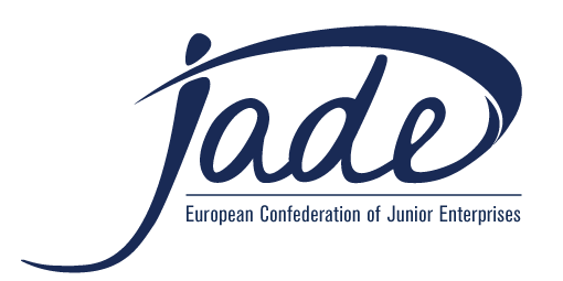 Visual Identity